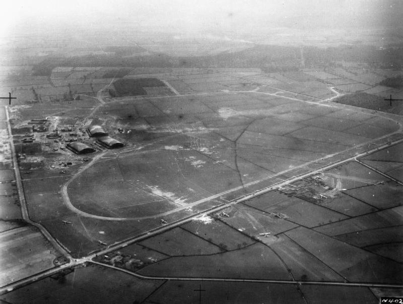 IWM caption : Oblique aerial view of RAF Swinderby, Lincolnshire, looking south-south-west. Vickers Wellingtons belonging to Nos. 300 and 301 Polish Bomber Squadrons RAF can be seen parked on the airfield and on the circular pans of two three-spurred dispersals constructed across the Fosse Way (A46) in the foreground. On the left, a public road runs eastward from Halfway Houses (lower left) to Lane Moor Lane, dividing the airfield technical site and hangars from the domestic site (off left).